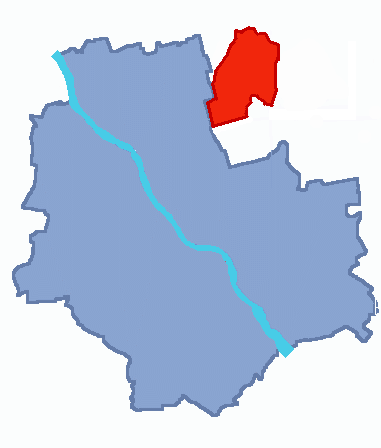 location of Marki (red) and Warsaw (blue)